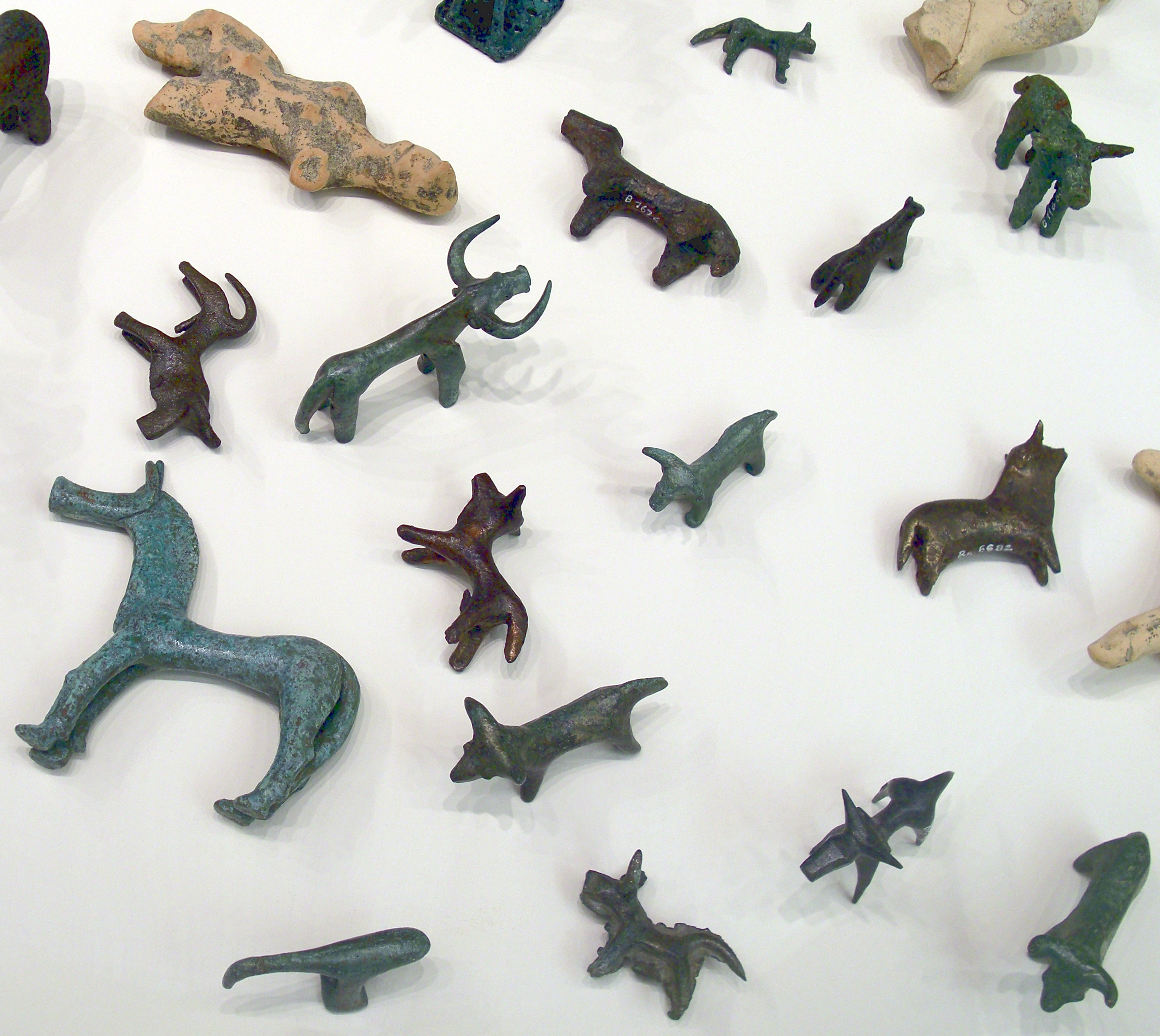 Bronze animal statuettes from Olympia. Votive gifts, 8th - 7th century BC. On display in the archeologic museum of Olympia, Greece.